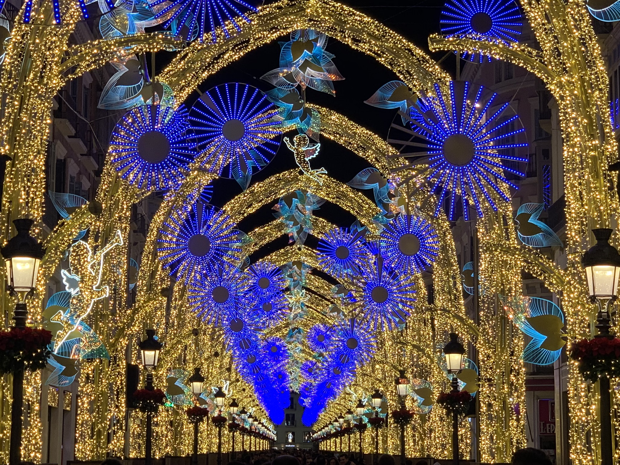 Larios Street Christmas Lights 2019